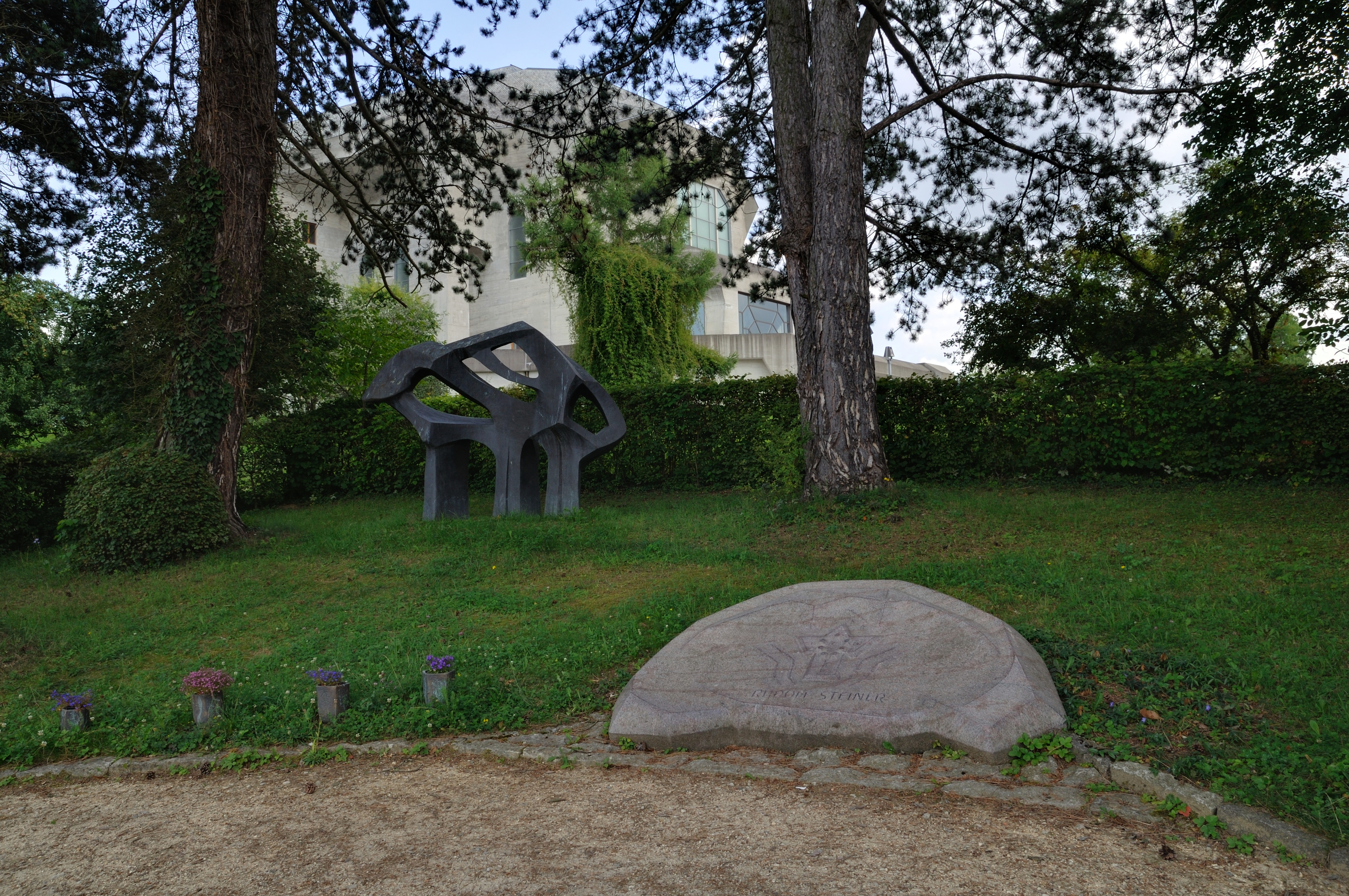 memorial grove with Goetheanum in the background